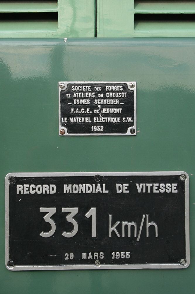 World record plaque on the BB 9004 locomotive that commemorates the world record rund (331 km/h) of March 29th, 1955.